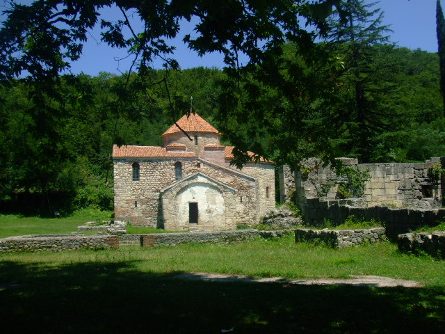 Nokalakevi